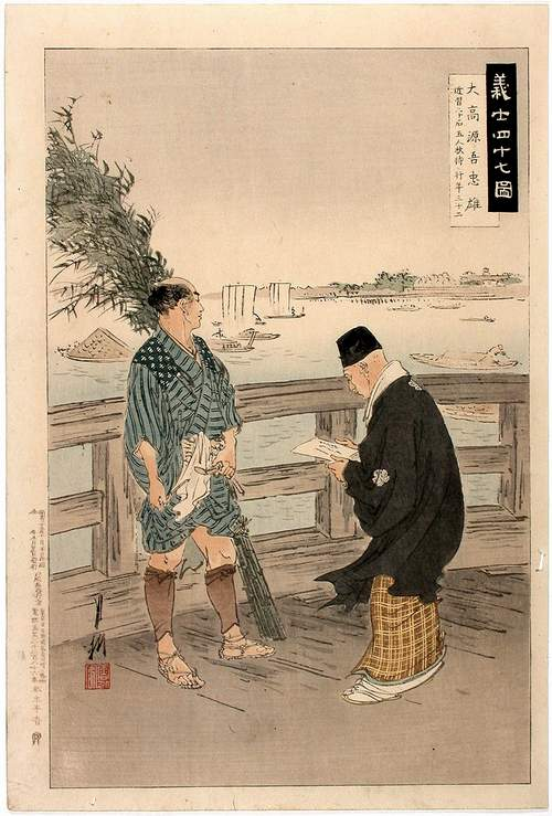 Ronin are masterless samurai. Chushingura is the true story of 47 samurai who became masterless in 1701, after their lord had been forced to commit ritual suicide (seppuku) for assaulting a court official who had insulted him. They avenged him by killing the court official after patiently planning for over a year. They were themselves then forced to commit seppuku.